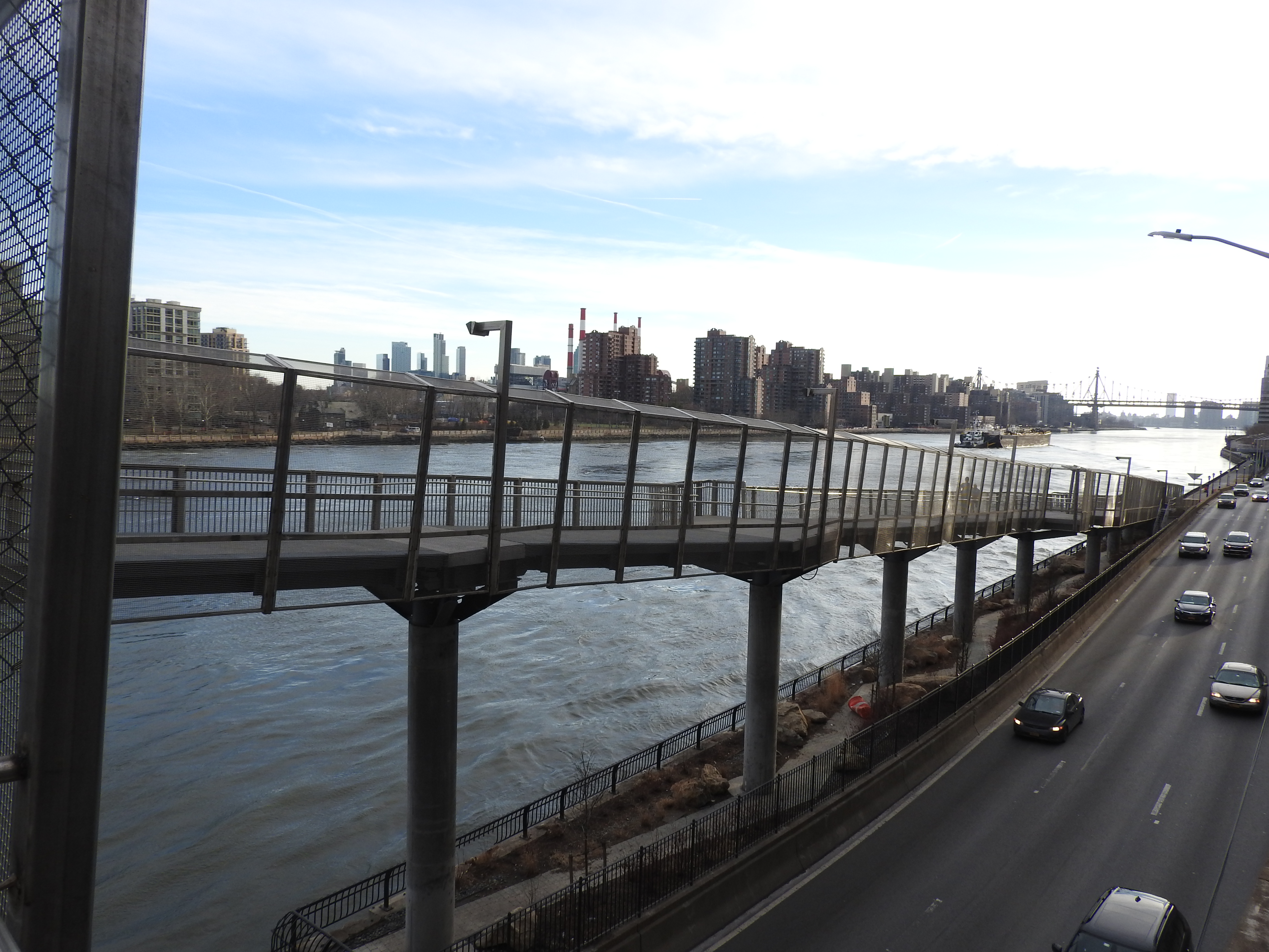 Looking south at new shallow ramp